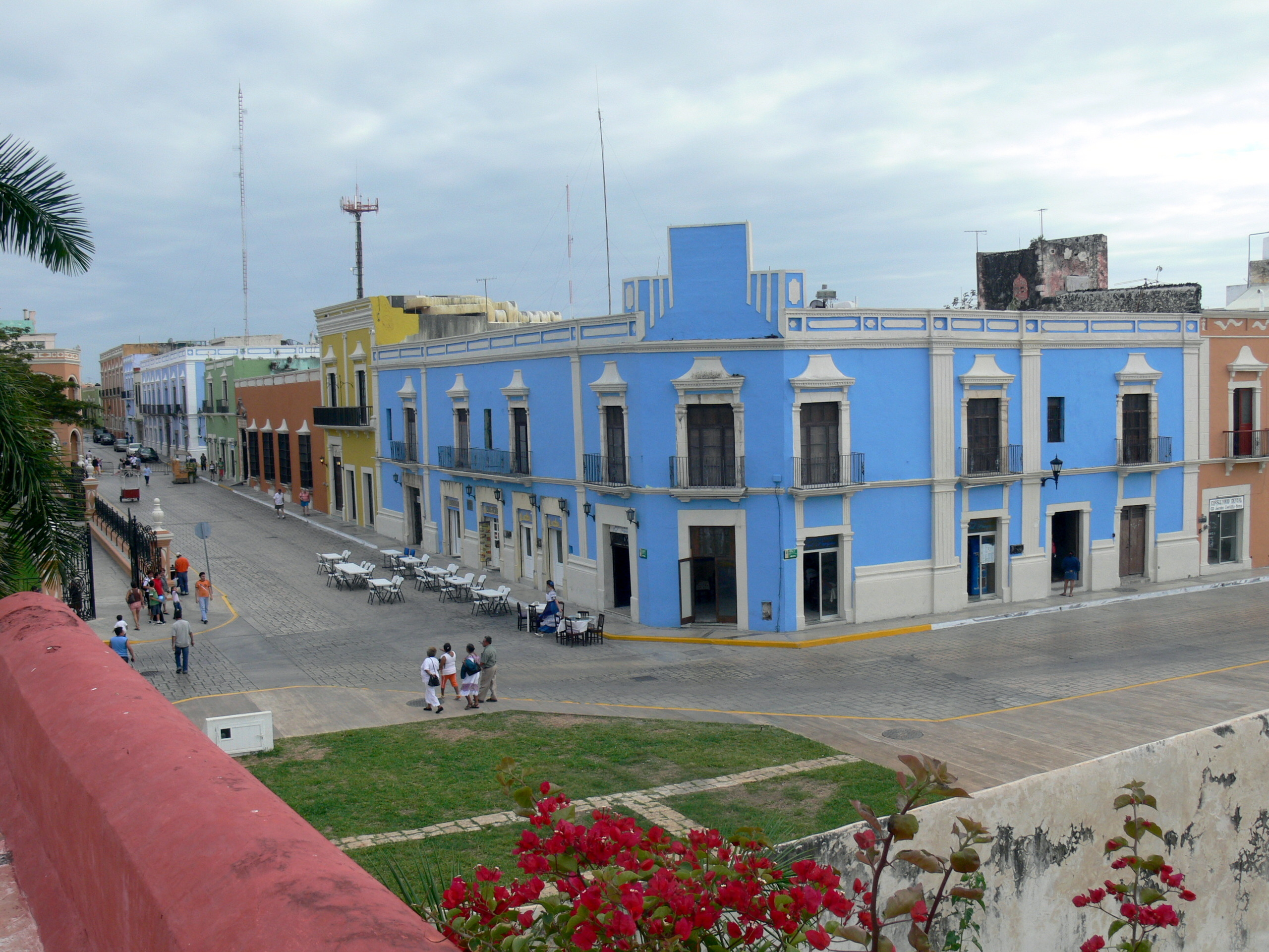 Birthplace of 19th century Mexican poet and writer Justo Sierra (1848–1912) — blue house on corner, near Plaza de la Republica, Ciudad de Campeche. Houses in the UNESCO Historic Center of San Francisco de Campeche district, Campeche state, southeastern México.